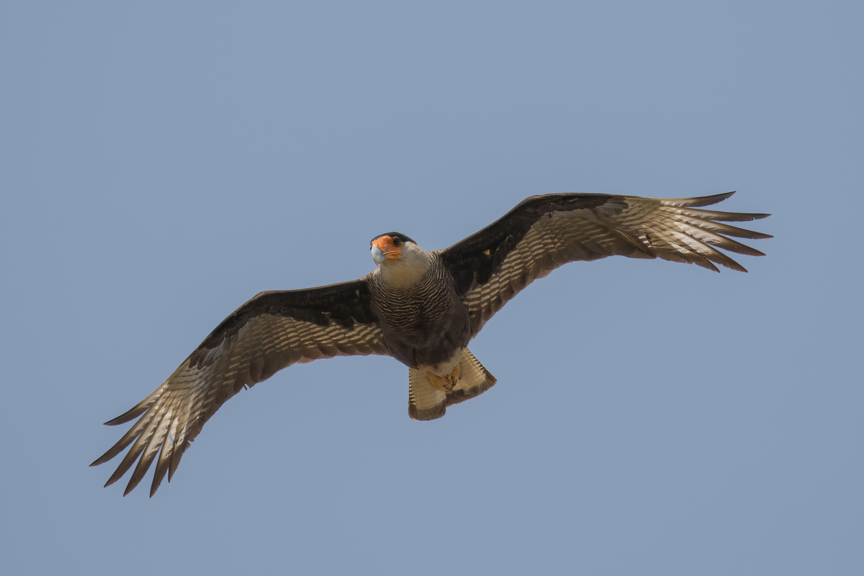 Southern crested caracara (Caracara plancus) adult in flight, the Pantanal, Brazil